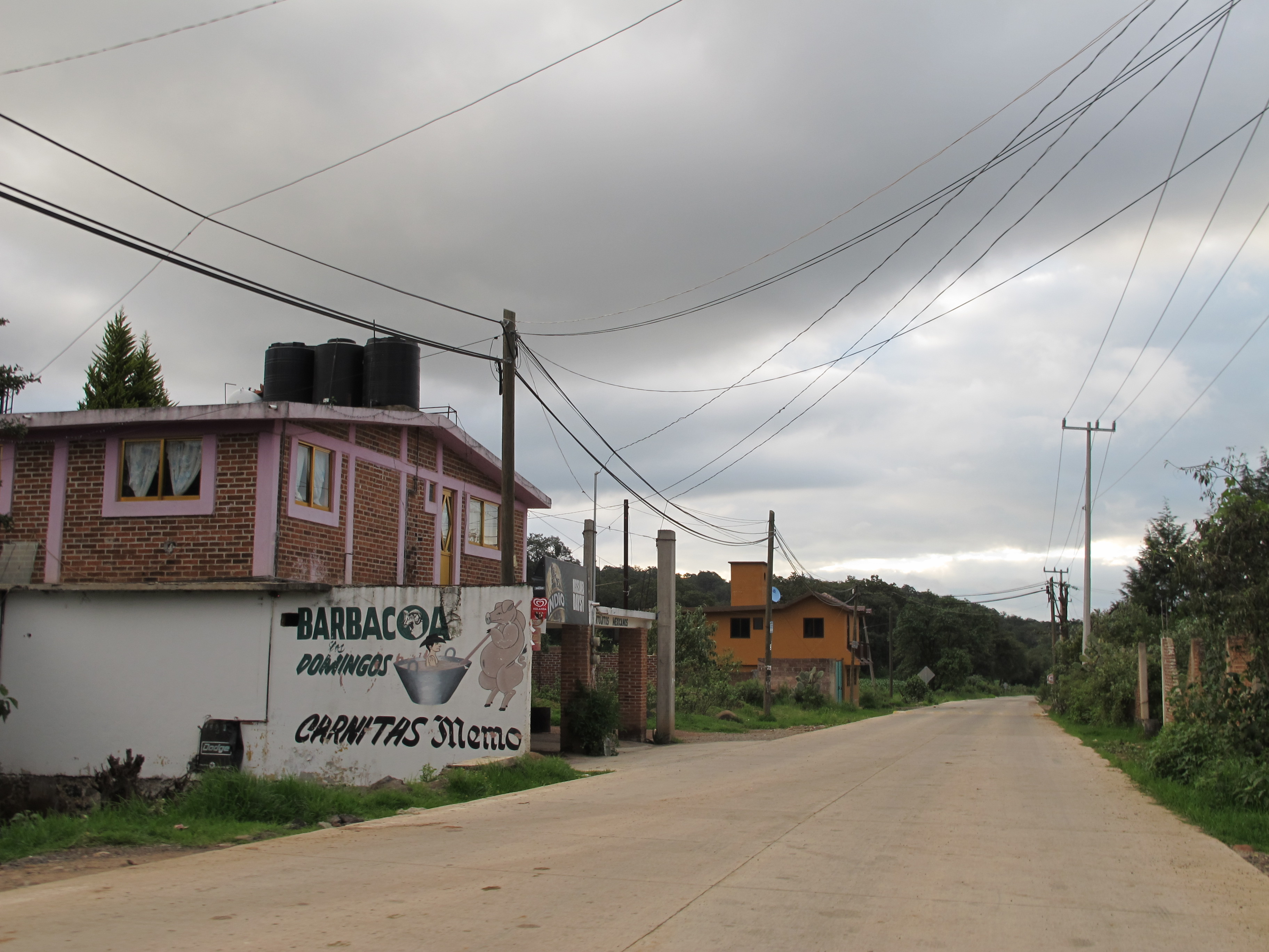 Local trade at the roadside in Los Romeros, located in the municipality of Santiago Tulantepec, Hidalgo State.